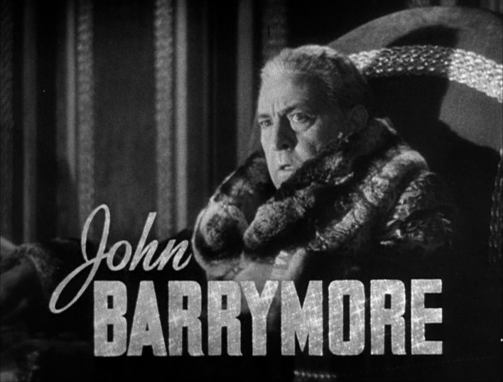 Cropped screenshot of John Barrymore from the trailer for the film Marie Antoinette